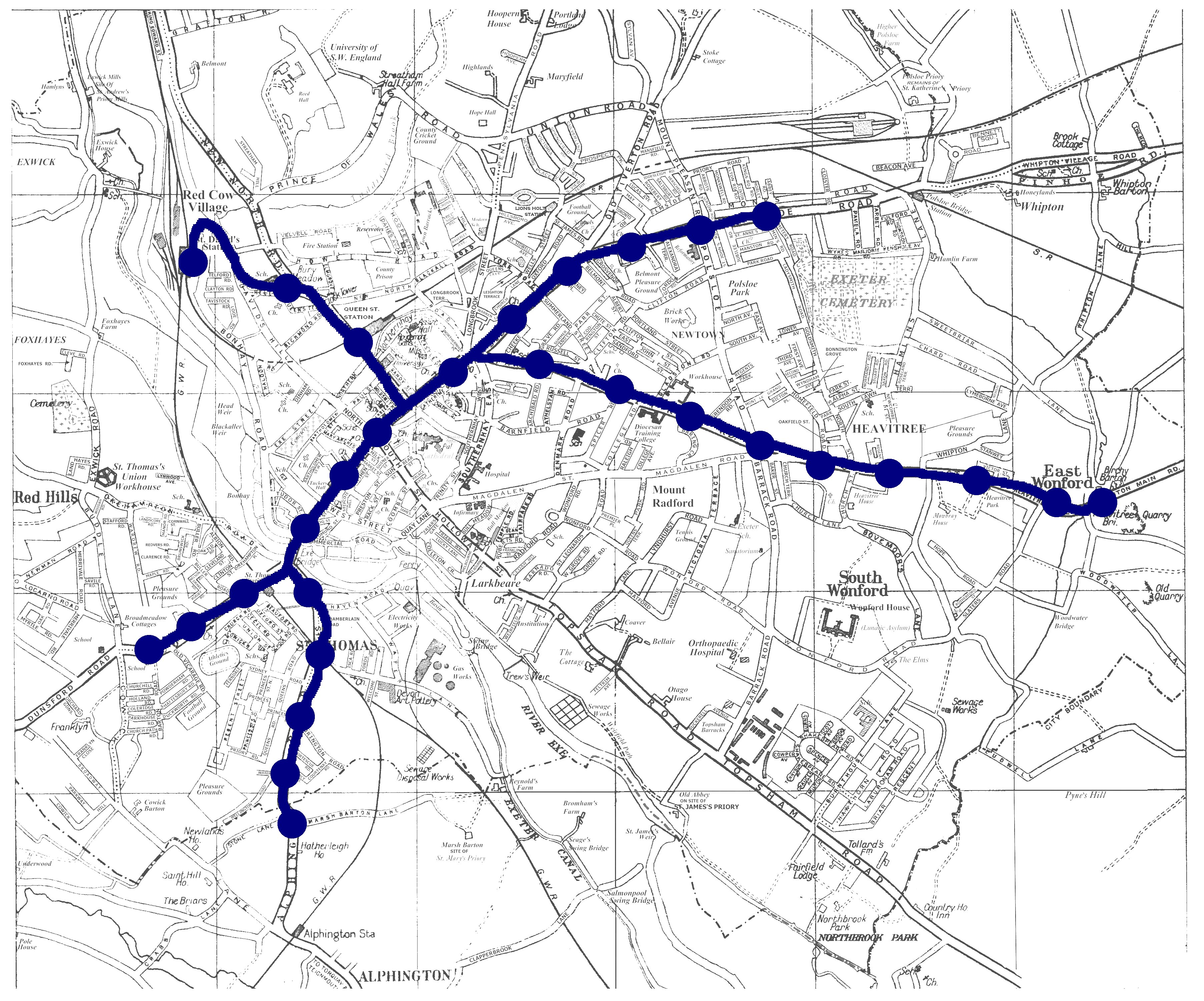 Operational map of the Exeter Corporation (electric) Tramways 1905-31. Created from out of copyright material.